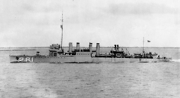 The U.S. Navy destroyer USS Sharkey (DD-281) underway in June 1924.